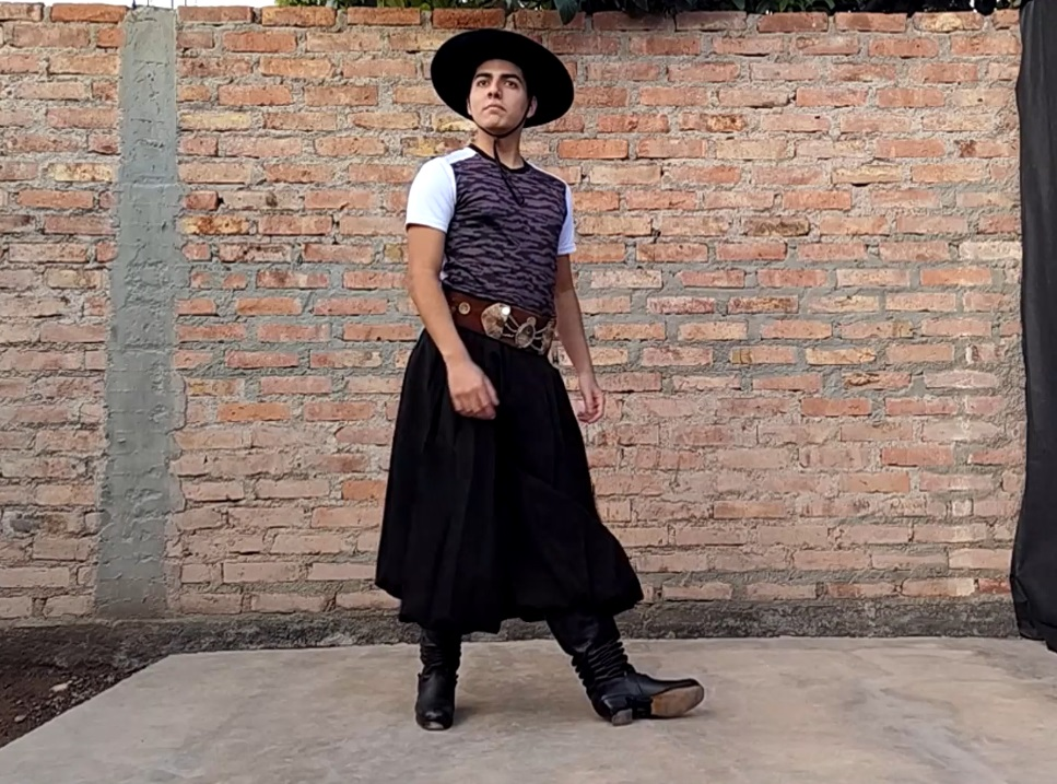 Man dancing Malambo, a folk dance of gaucho culture. Gauchos are skilled horsemen who live in Argentina, Paraguay and southern Brazil.